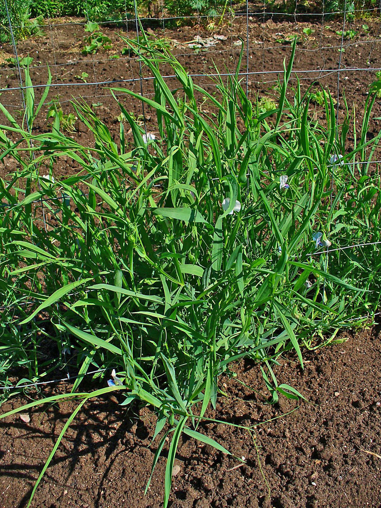 Lathyrus sativus, Fabaceae, Grass Pea, Blue Sweet Pea, Chickling Vetch, Indian Pea, Indian Vetch, White Vetch, habitus. The ripe seeds are used in homeopathy as remedy: Lathyrus sativus (Lath.)